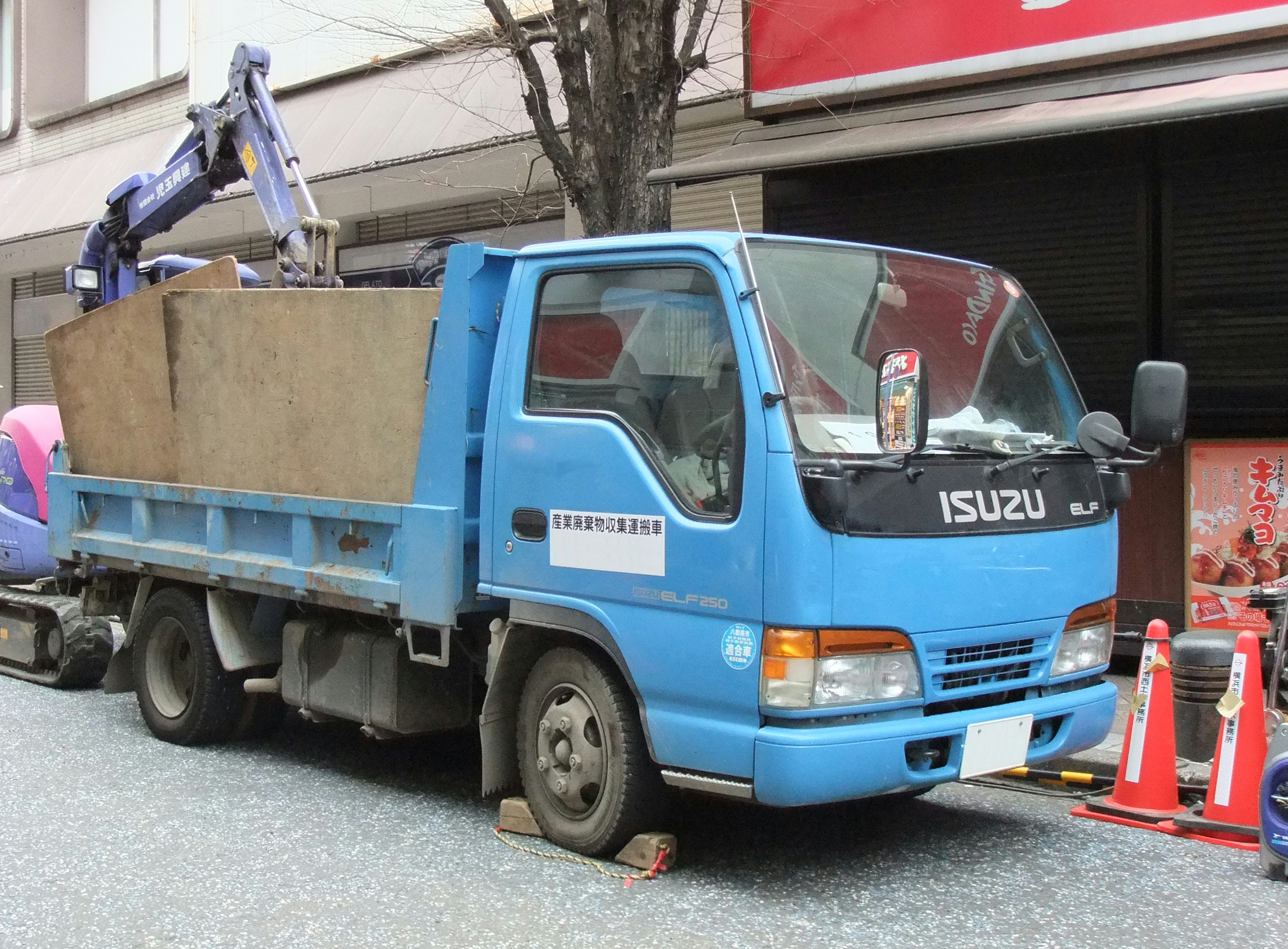 ISUZU, ELF 5th Gen., early model from 1993.（It is called REWARD or N-series excluding a Japanese market.）